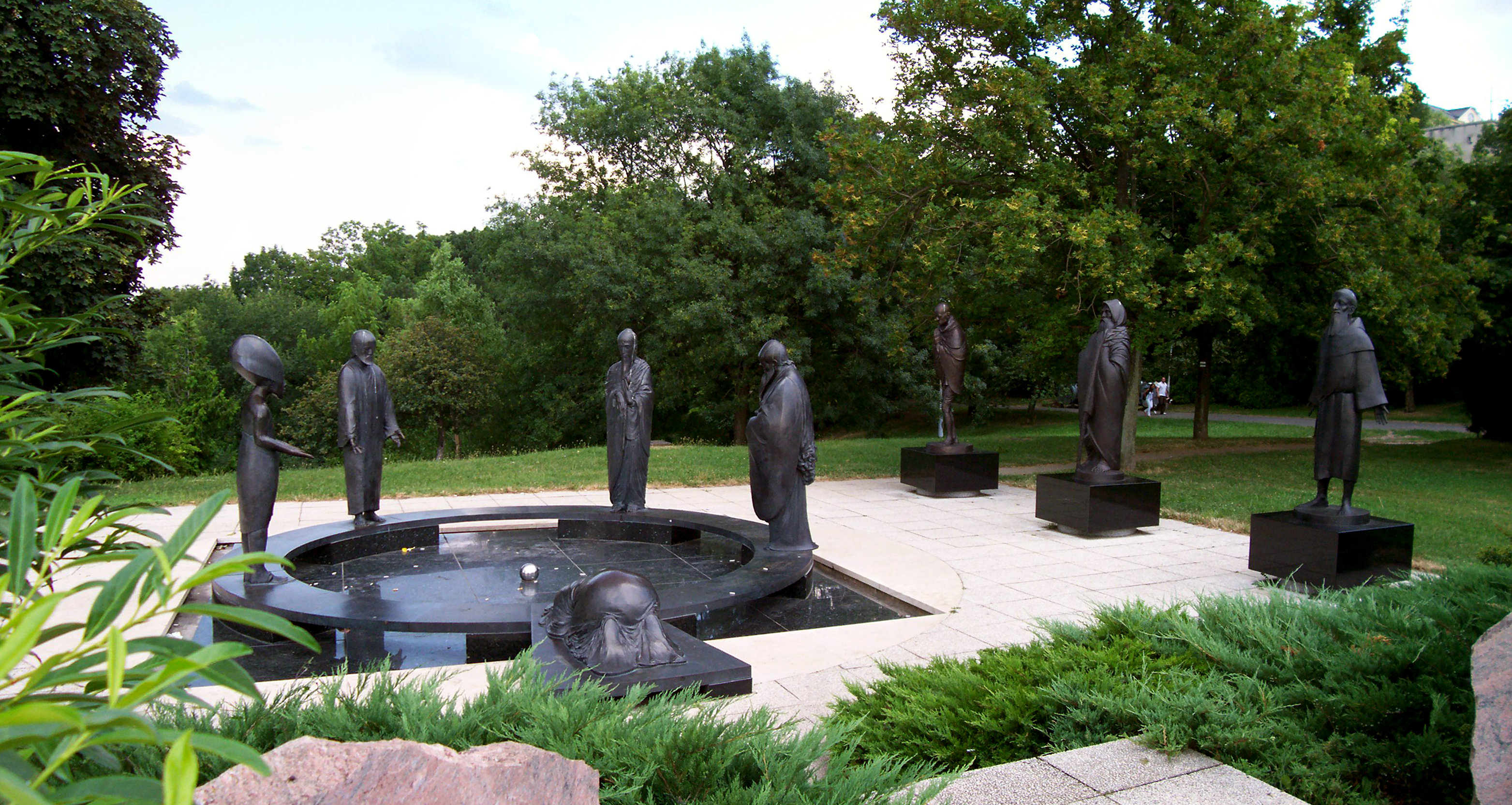 Garden of Philosophy on the side of Gellért hill Budapest, created “for a better mutual understanding” by Nándor Wagner. The statues in the circle are labelled “Ábrahám, Ekhnaton, Jézus Krisztus, Buddha, Lao Ce”, the other three statues “Assisi Szent Ferenc”, “Bodhi Dharma”, “Mahatma Gandhi”.